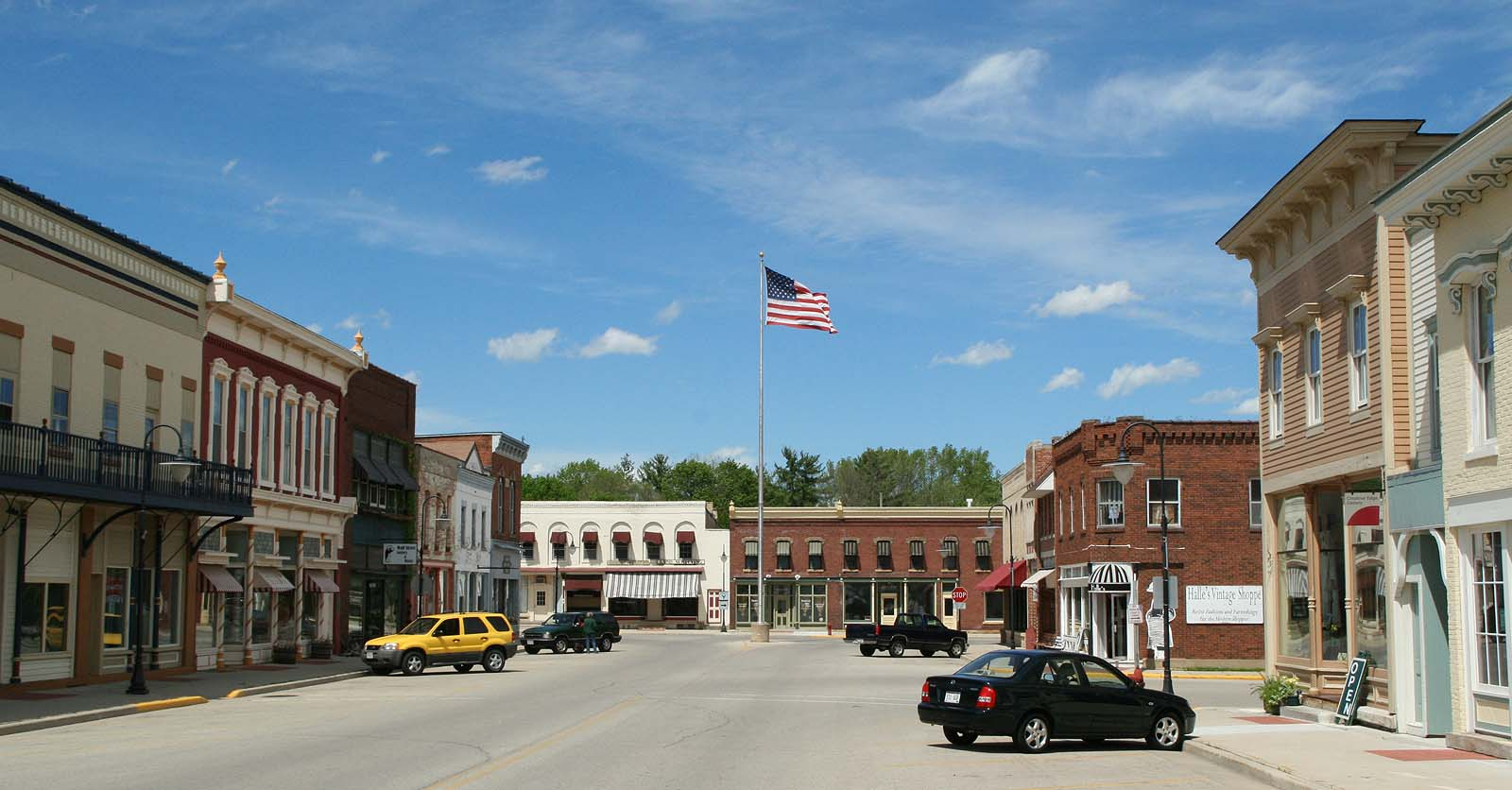 The old, historic downtown section of Mazomanie, Wisconsin